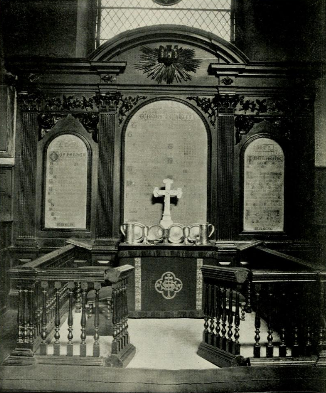 The reredos at Holy Trinity Church, Minories, in London, shortly before its closure..